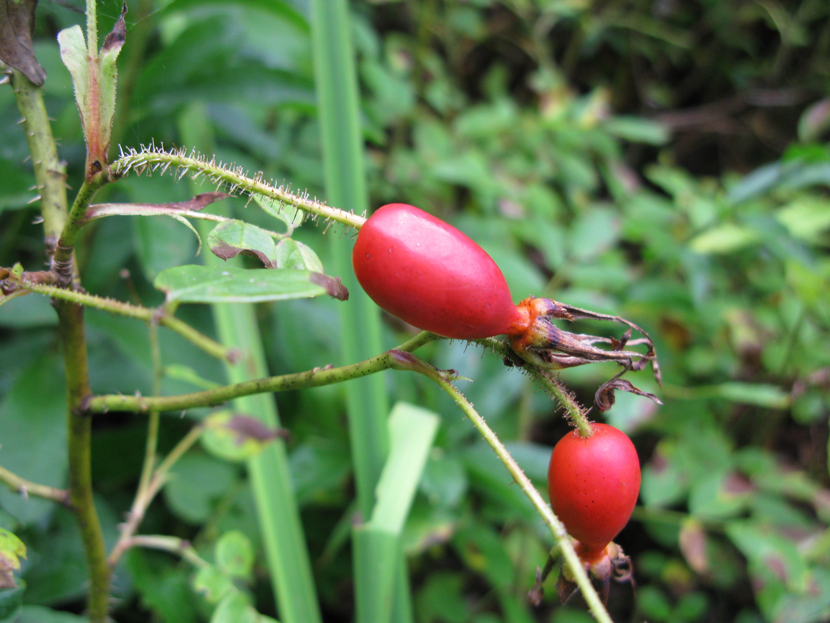 Rosa acicularis, Aizu area, Fukushima pref., Japan